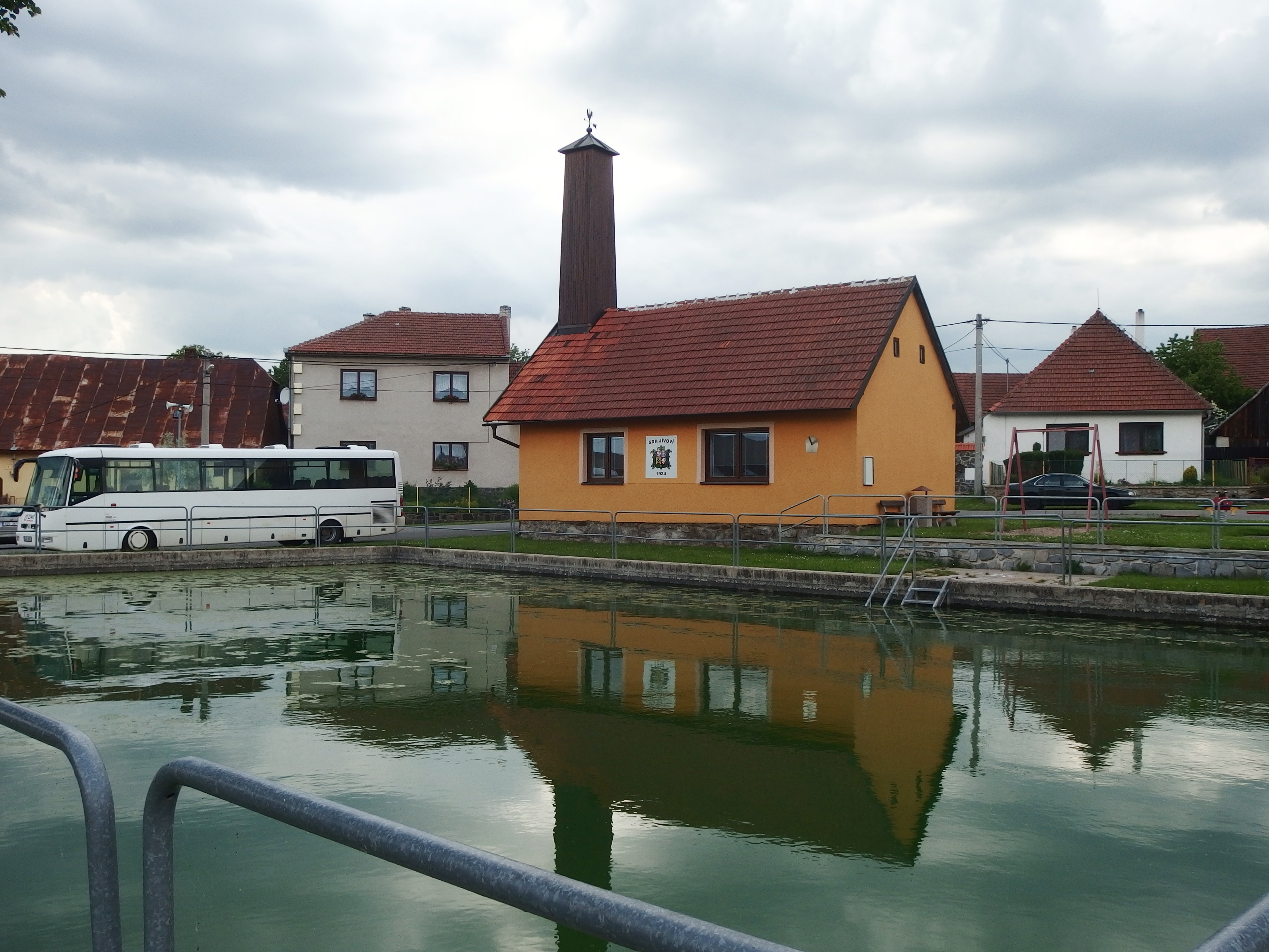 Jívoví, Žďár nad Sázavou District, Czechia.